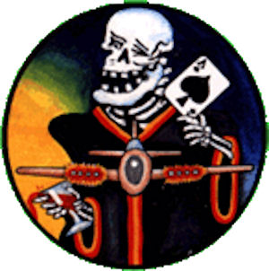 359th Fighter Squadron - World War II - Emblem